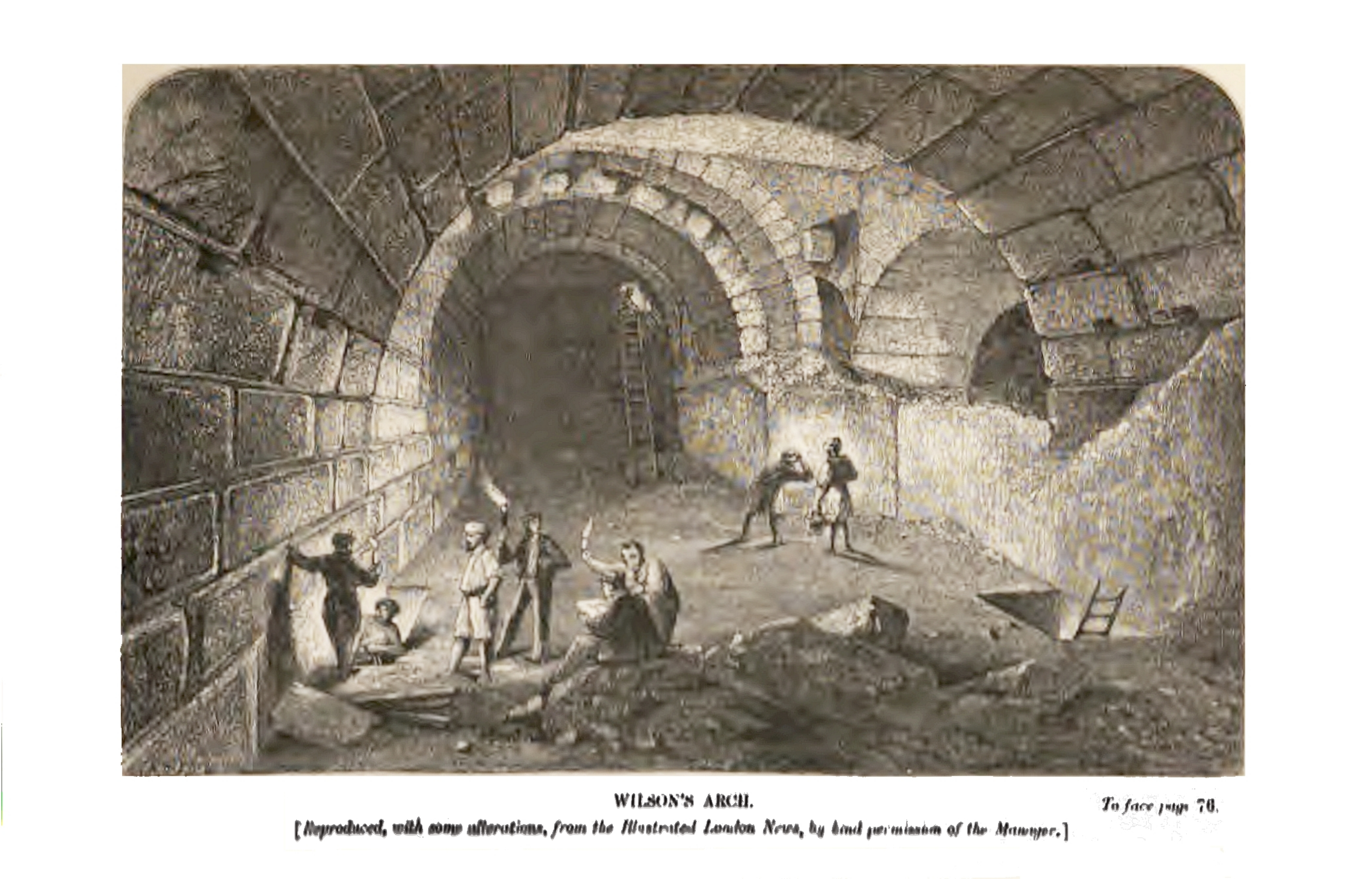 Charles Wilson's 1871 "Recovery of Jerusalem" publication of the Ordnance Survey of Jerusalem